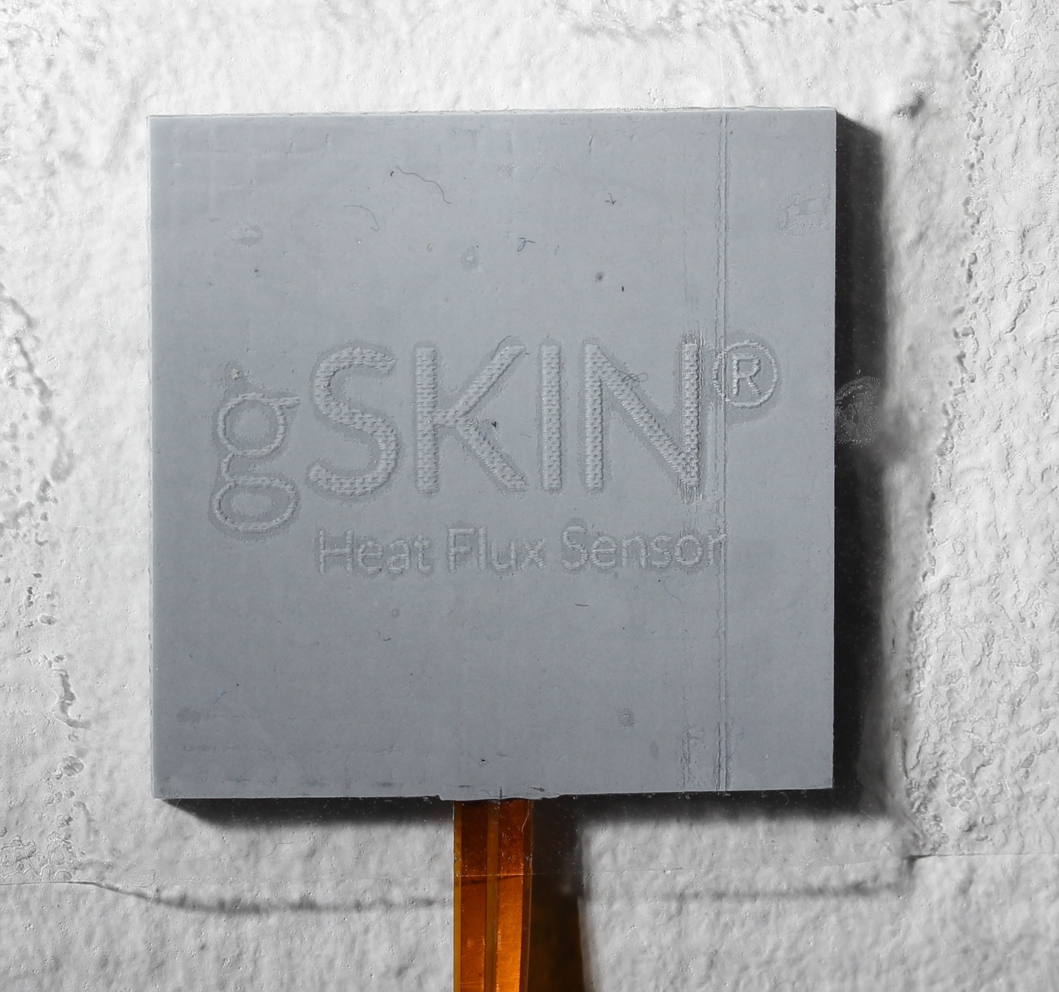 Heat flux sensor of greenTEG. Model: gSKIN -XO 67 7C. This sensor is used to determine the heat flux and/or the thermal resistance of a building envelope.